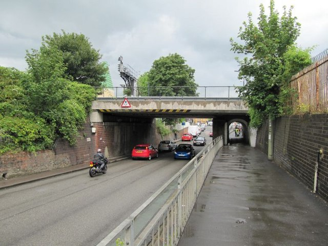 The Botley Road rail bridge The Botley Road rail bridge - probably not what it looked like when it was first built though I dare say the pedestrian tunnel is the same.